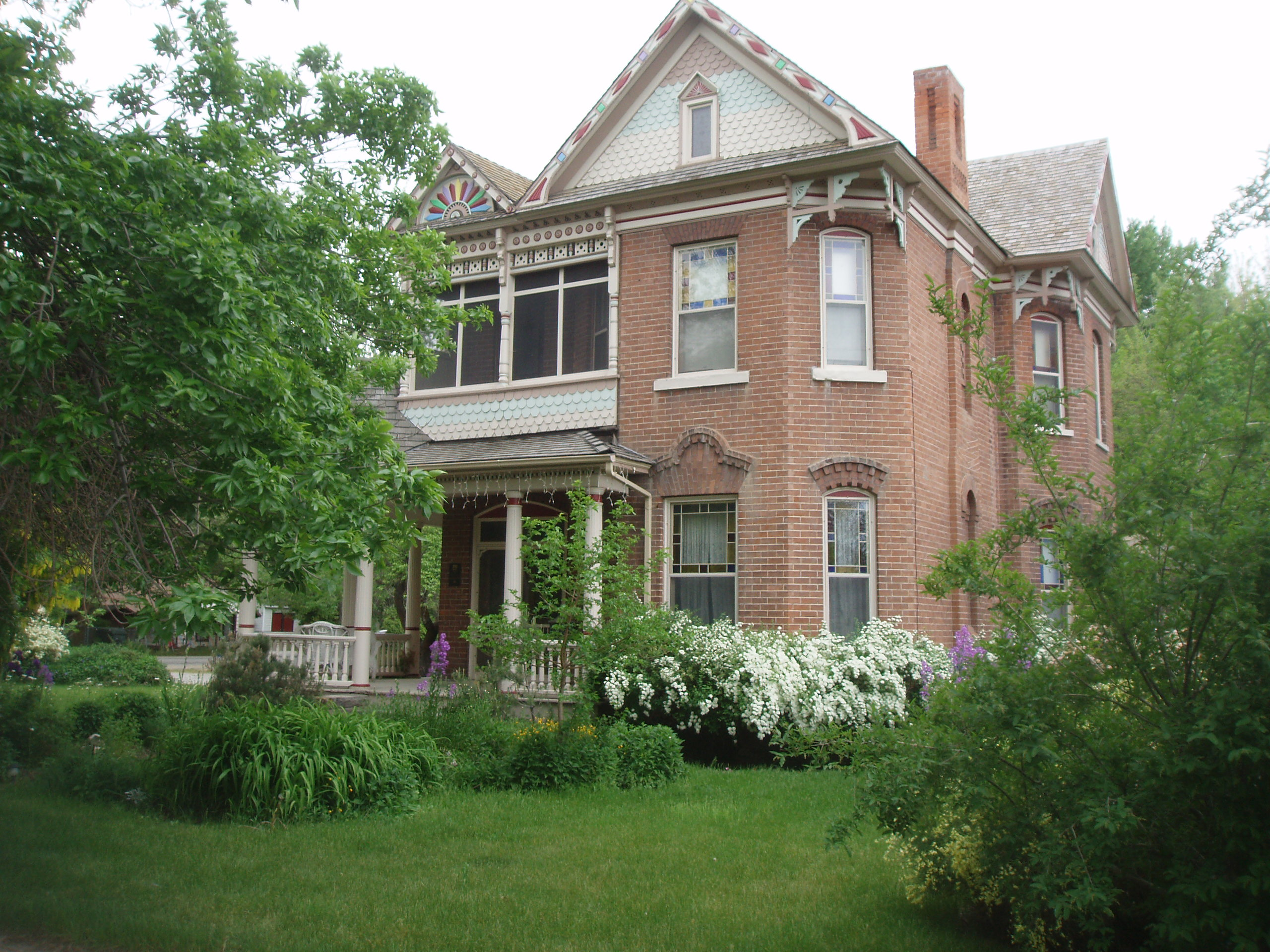 The Charles W. Cross House, a historic home in Ogden, Utah, United States.